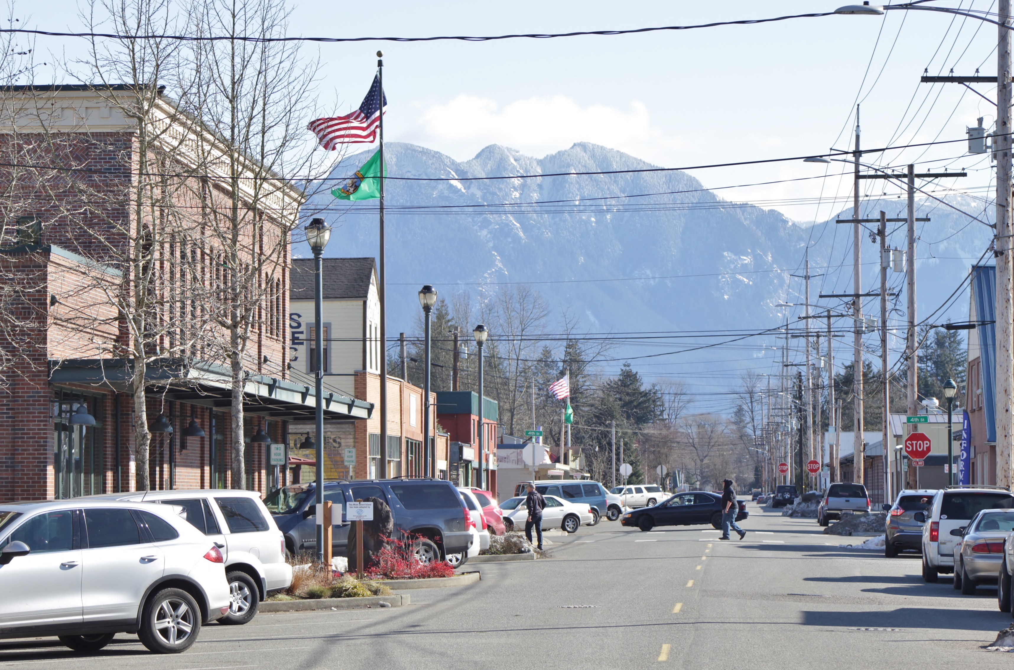 Looking east down Main Street in downtown Sultan, Washington, United States, from 3rd Street.